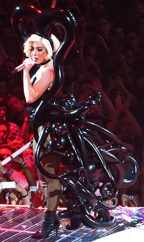 Lady Gaga, ARTPOP Ball Tour, Bell Center, Montréal, 2 July 2014 (45) Gaga performing on ArtRave: The Artpop Ball tour